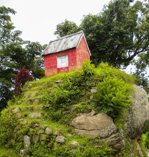 This is the image of the tomb of a historic character of Imerina - Madagascar. The monarch buried under this rock did not have a portrait in that time (1725 - 1775). So, this picture represent that character.